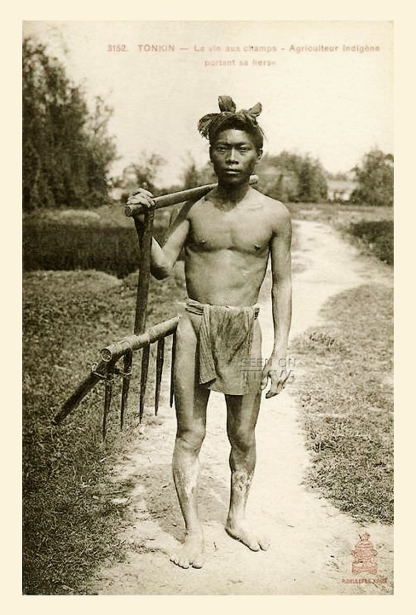 Vietnamese peasant